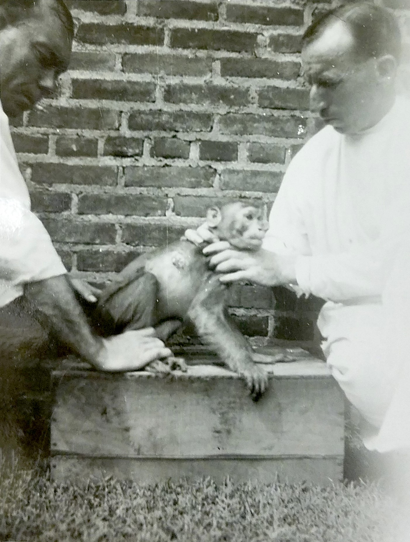 Lab tech Henry “Shorty” Anderson slumped in his chair, holding his head. A horrible headache and high fever announced that despite his best efforts to keep the disease contained, he had caught psittacosis. His boss, Dr. Charles Armstrong, took Anderson to the Navy hospital next door on the 25th and E Street NW campus where #NIH was then located. Every day for nearly two weeks, Armstrong visited Shorty in the hospital, promising that he would make sure that Shorty’s bills would be paid on time. Shorty would die on February 8, 1930; on that day, Armstrong was admitted to the hospital with psittacosis, although he would recover. Several other NIH staff members would also get ill. NIH director George McCoy shut down research on the disease, carried by parrots being given as Christmas presents, allowing only himself to clear the two basement rooms where Anderson and Armstrong had worked before having the entire building fumigated. Henry Anderson was memorialized for the Congressional Record by Representative Anthony Griffin (NY) on February 11, 1930: “Yesterday there was interred in Arlington Cemetery the mortal remains of one who may be truly said to have given up his life for the benefit of humanity. He made the supreme sacrifice, not in the midst of stimulating alarums of war but in the silent laboratory -- with no hope of praise or reward other than the consoling consciousness of toiling for his fellow men. Who was this man with the heart of the soldier and the soul of the martyr? His name is Harry Anderson. He was a soldier, too, for he served in the World War, from which he came unscathed only to meet his end as a humble laboratory assistant in the United States Public Health Service.” Anderson is on the right, Courtesy :The National Library of Medicine.